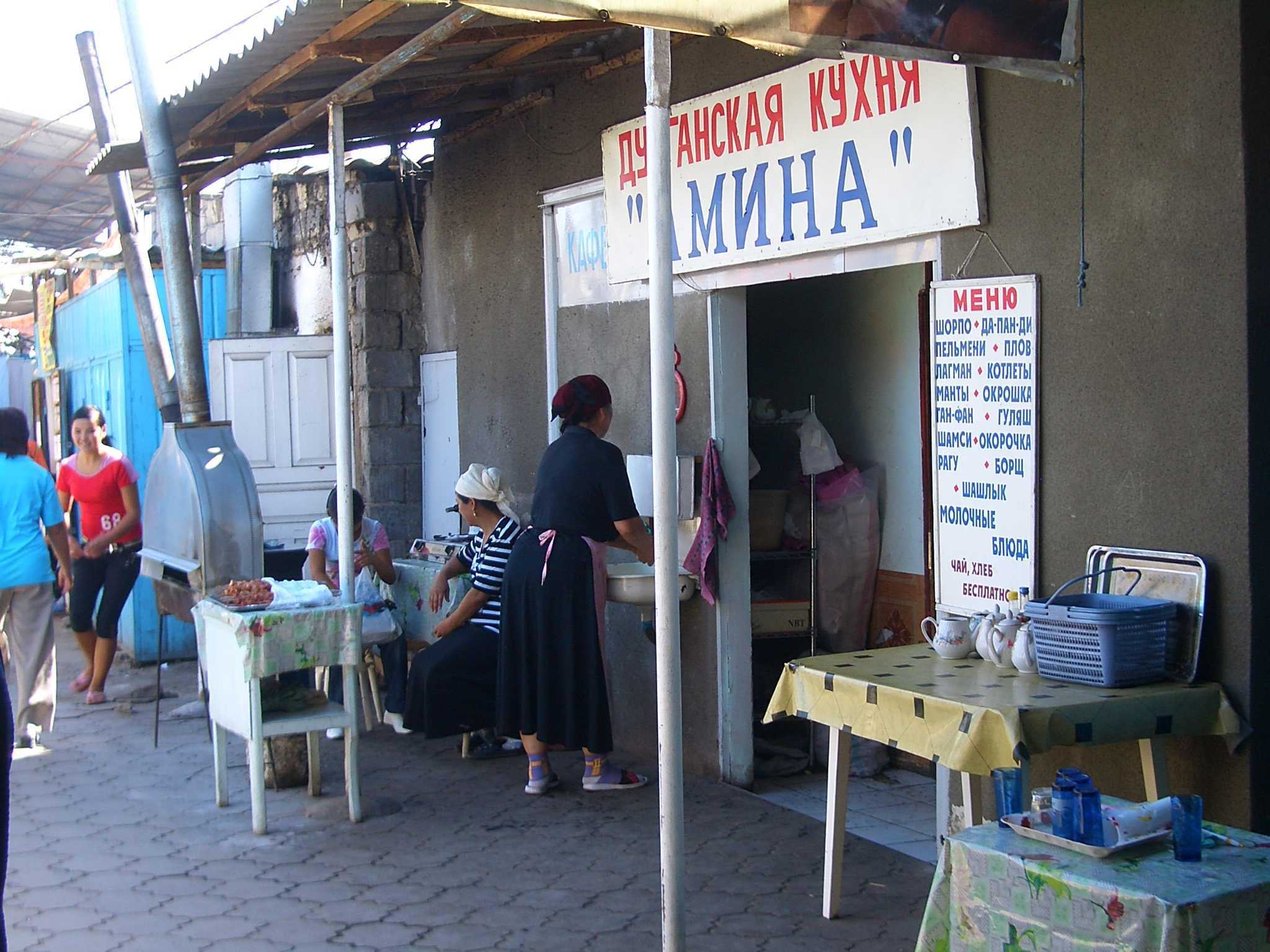 A "Dungan cuisine" restaurant in Dordoy Bazaar, Bishkek, advertises both Asian and Russian dishes in its menu.